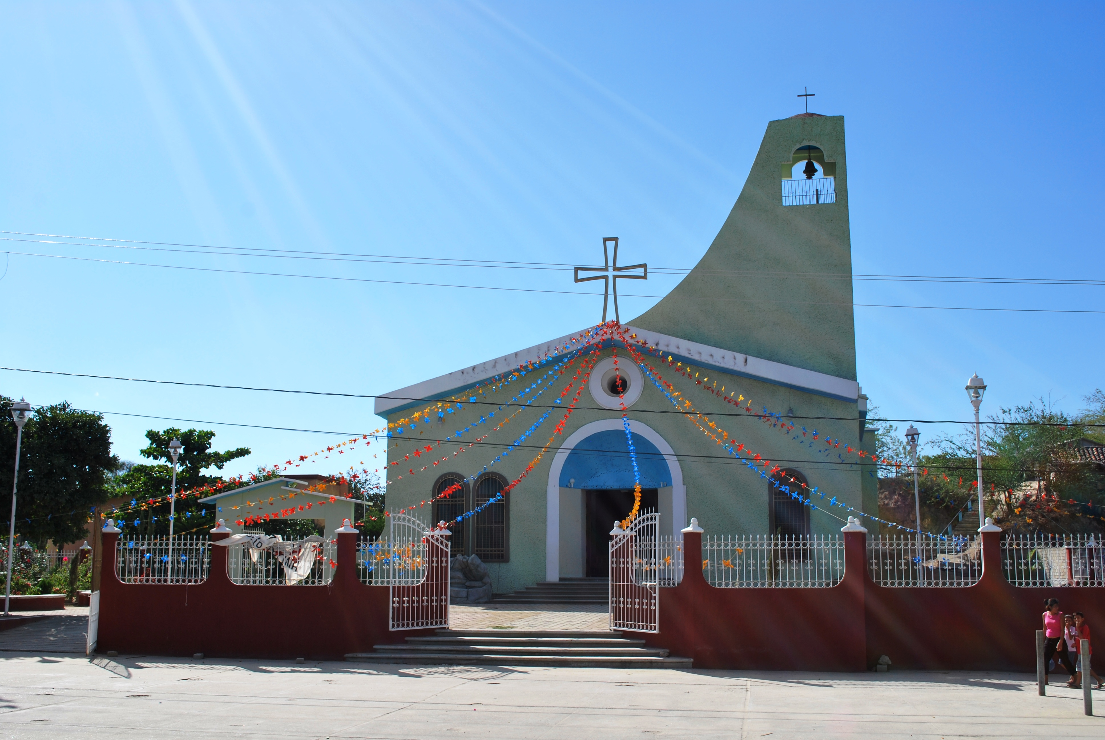 Facade of the church of Santa Maria Tonameca, Oaxaca, Mexico